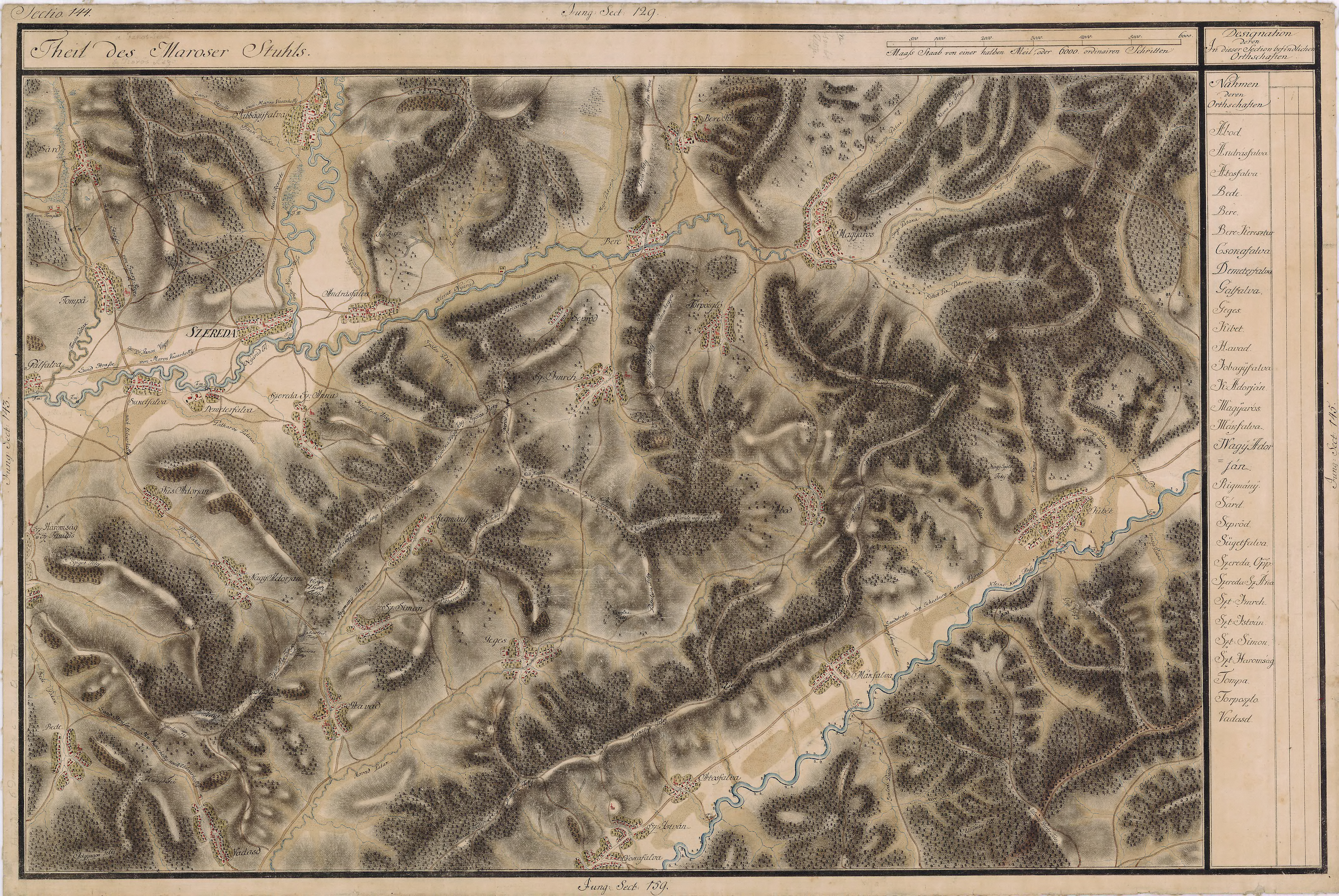 Grand Duchy of Transylvania, 1769-1773. Josephinische Landaufnahme pg.144